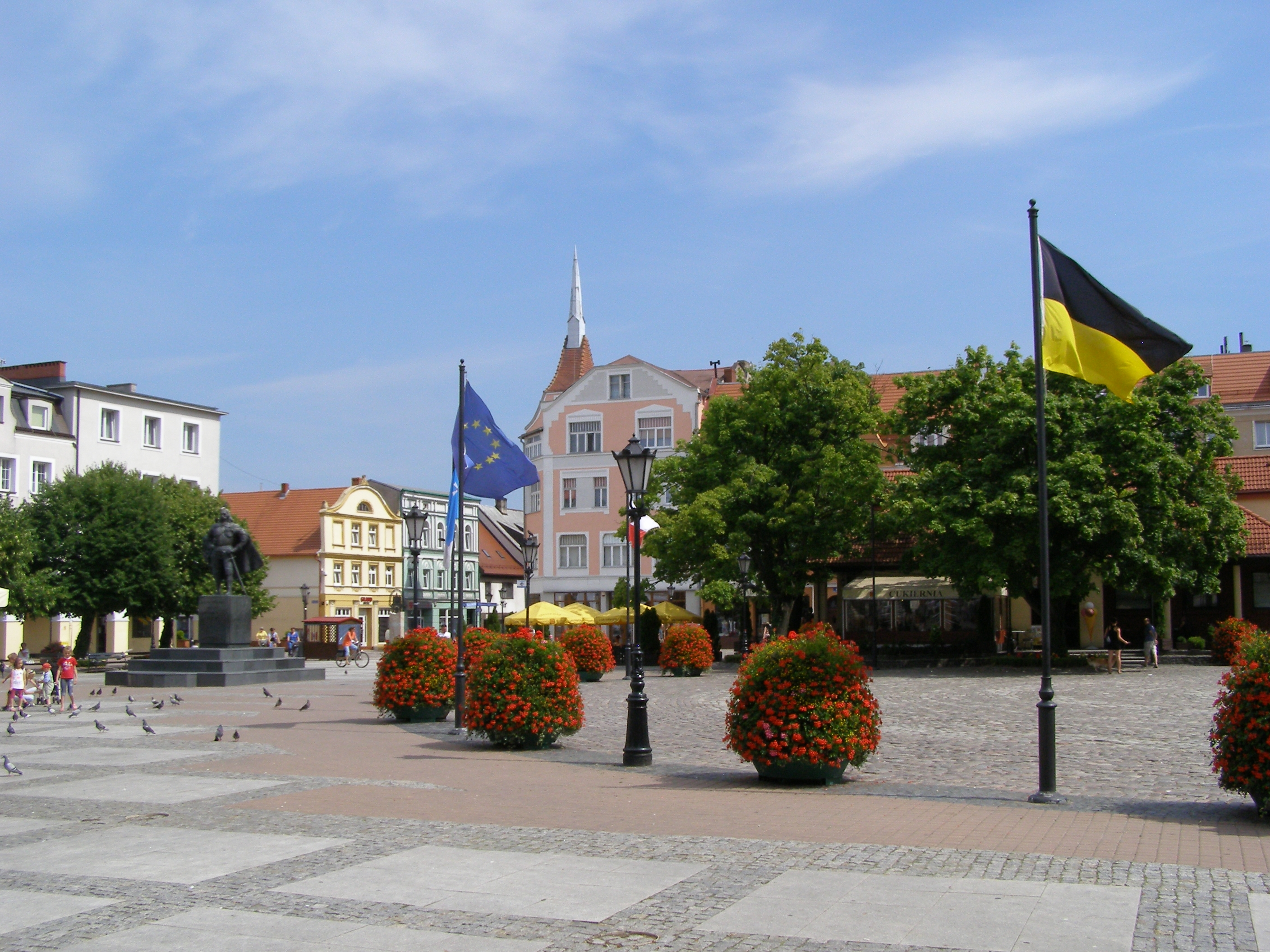 Wejherowo - Wejhera sq.